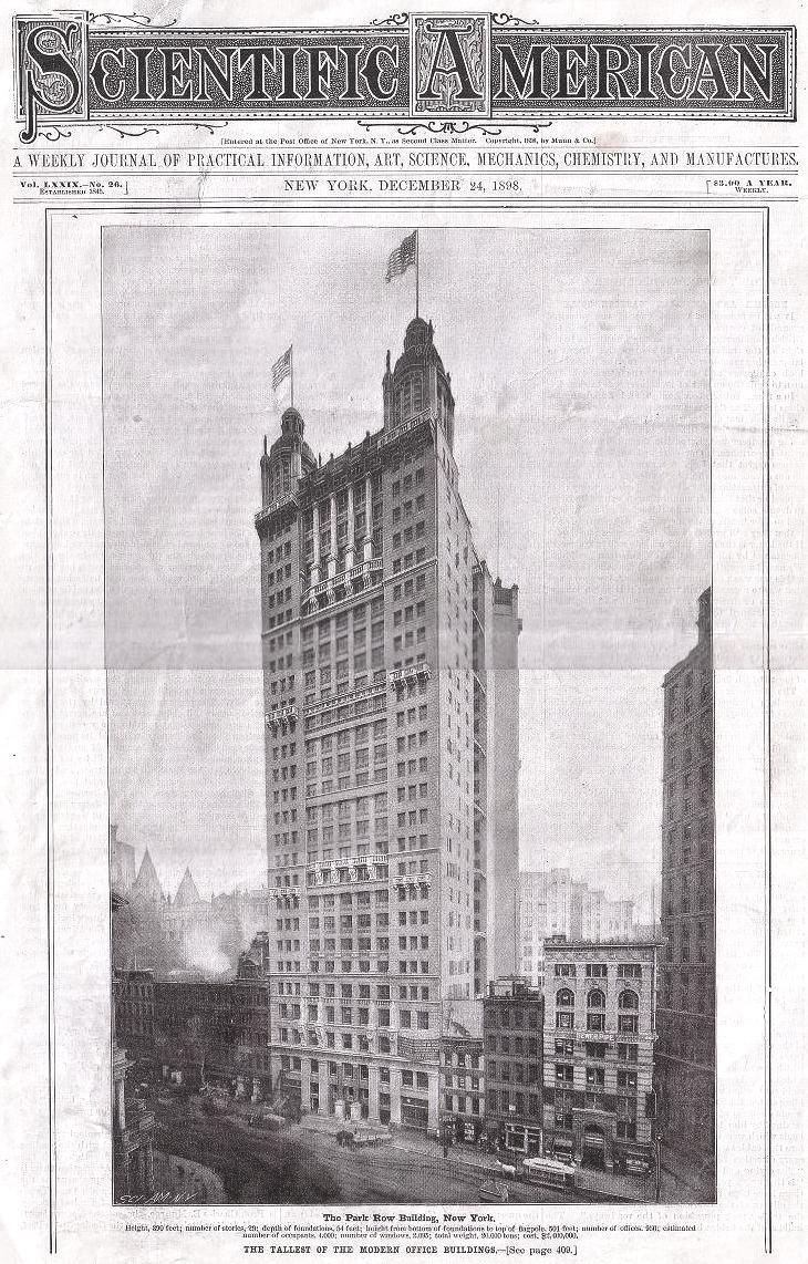 scan of cover of December 1898 'Scientific American' (Park Row Building)